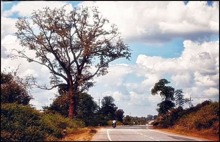 Tata Kandra Main Road